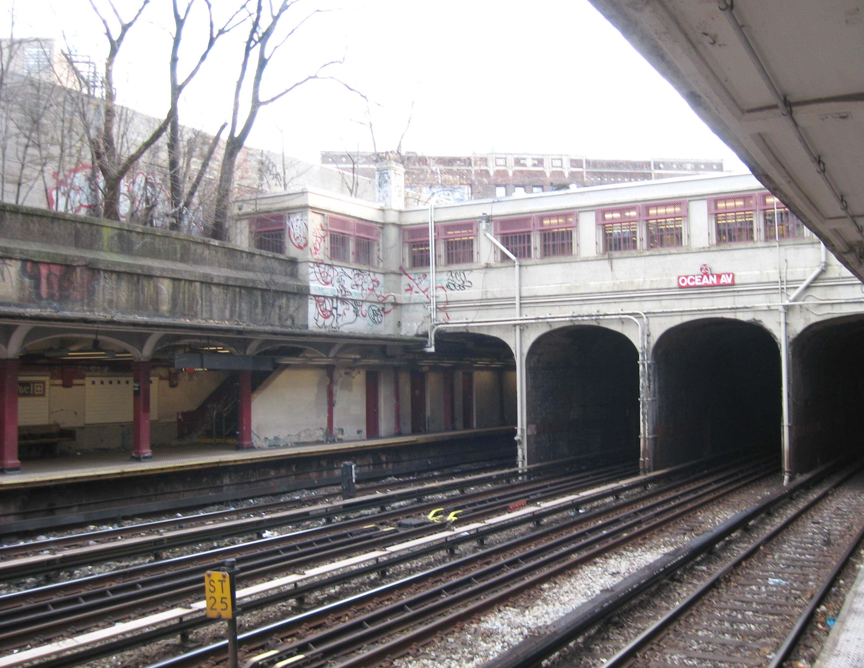 Looking south from northern part of southbound platform of Parkside Avenue (BMT Brighton Line) on a cloudy day. No, Ocean Avenue is not passing overhead. That's Parkside Avenue up there while Ocean Avenue lies off to the west (right}.